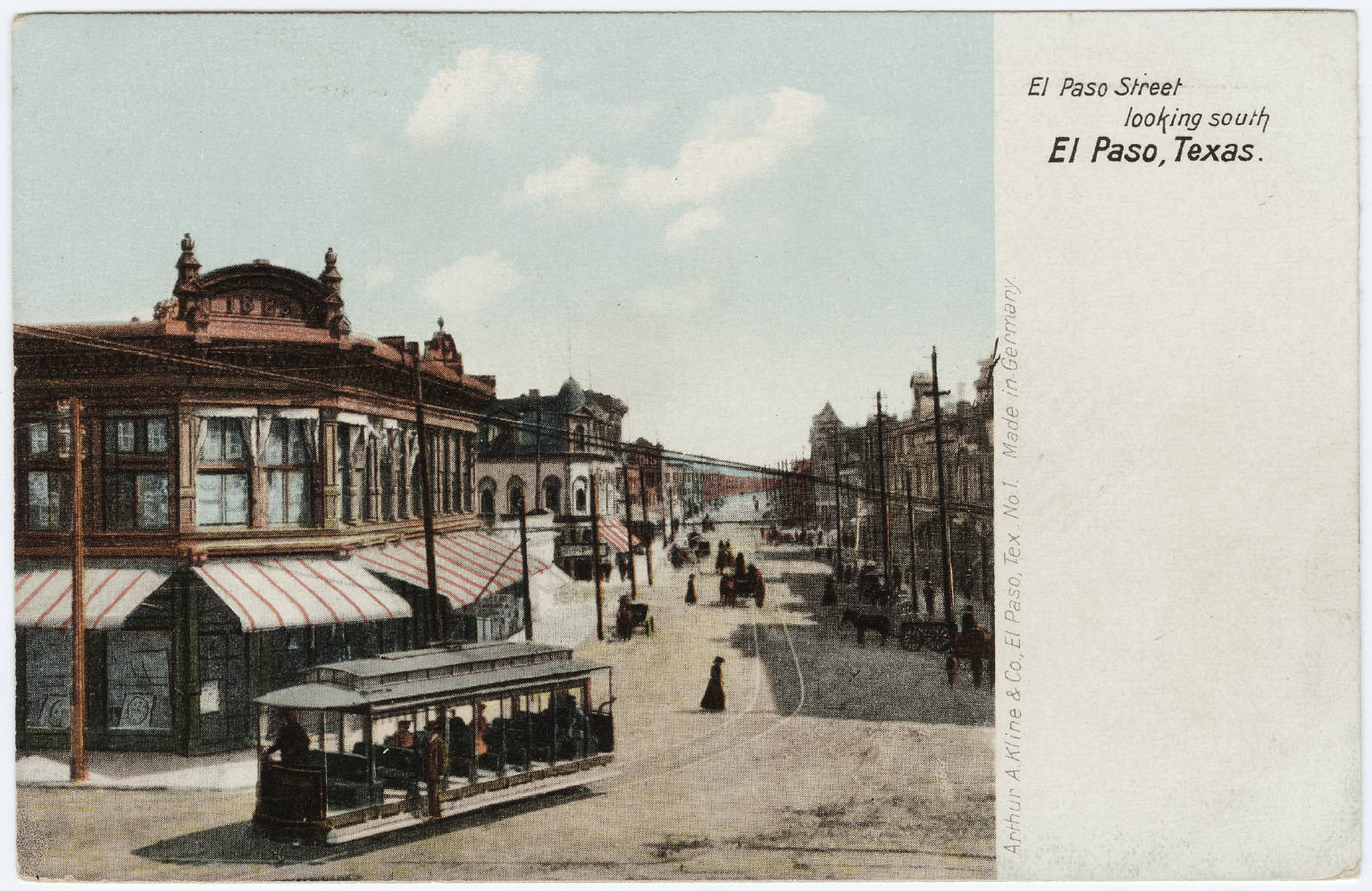 Postcard or print of a photo taken during the Mexican Revolution.